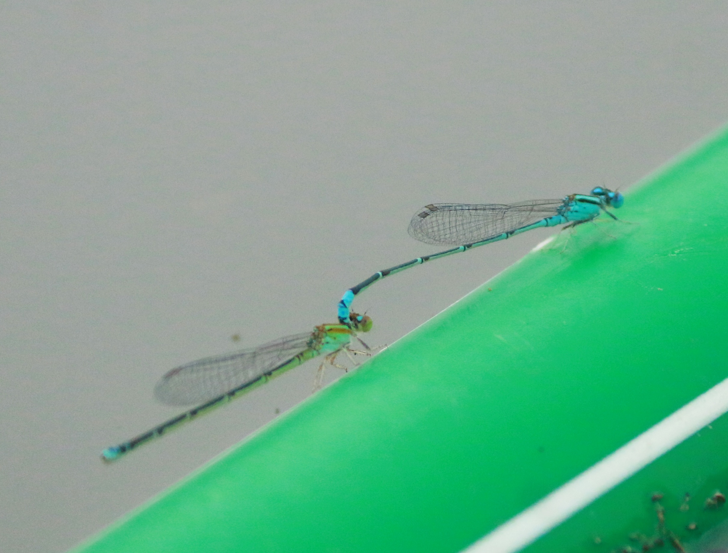 Pseudagrion microcephalum male and female